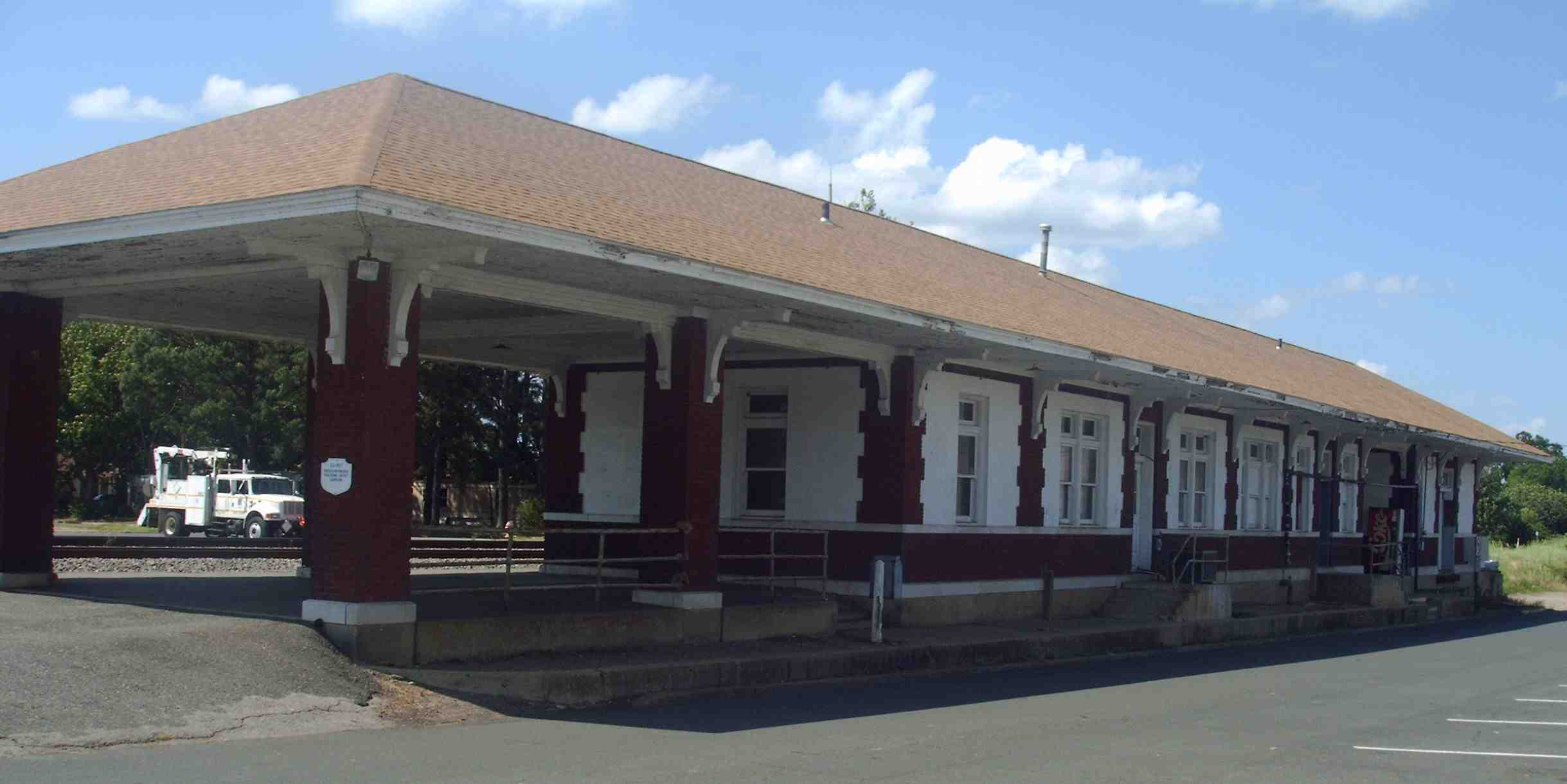 Gurdon Railroad Depot, in 2008, Gurdon, Arkansas